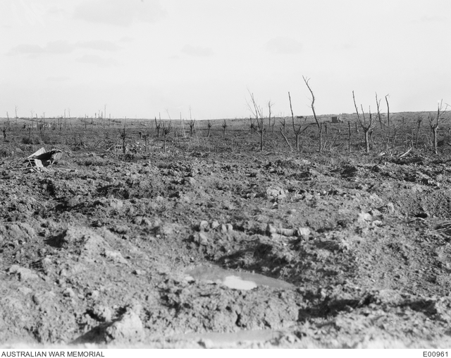 Image # E00961 from Australian War Memorial, with following text: "View of the woods and 'no man's land' at Broodseinde Ridge in the Ypres Sector, over which the Germans attacked a few minutes before our advance opened on the morning of 4 October 1917. The Australians met the enemy with the bayonet and after a fierce combat the German effort withered."